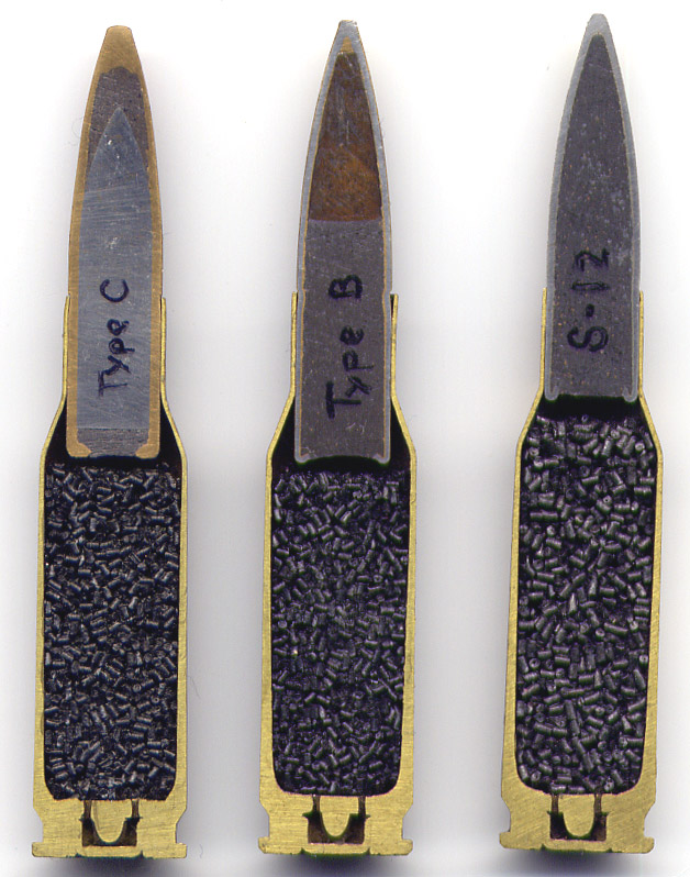 .280 / 30 British Military sectioned cartridges / Ammunition showing different types of bullet core.